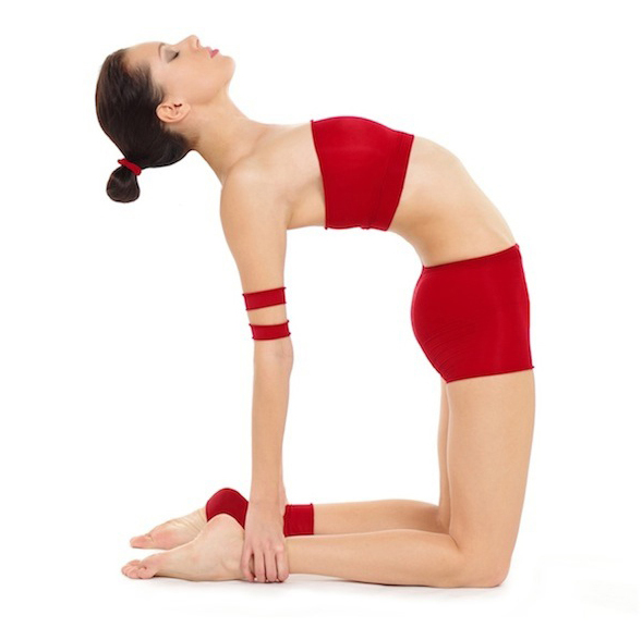 Ustrasana by Nina Mel, Yoga Teacher